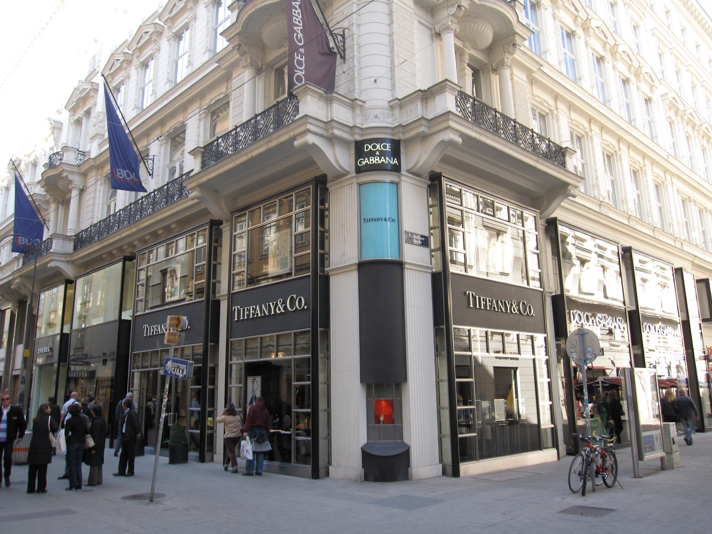 Tiffany & Co. at the Kohlmarkt in Vienna.